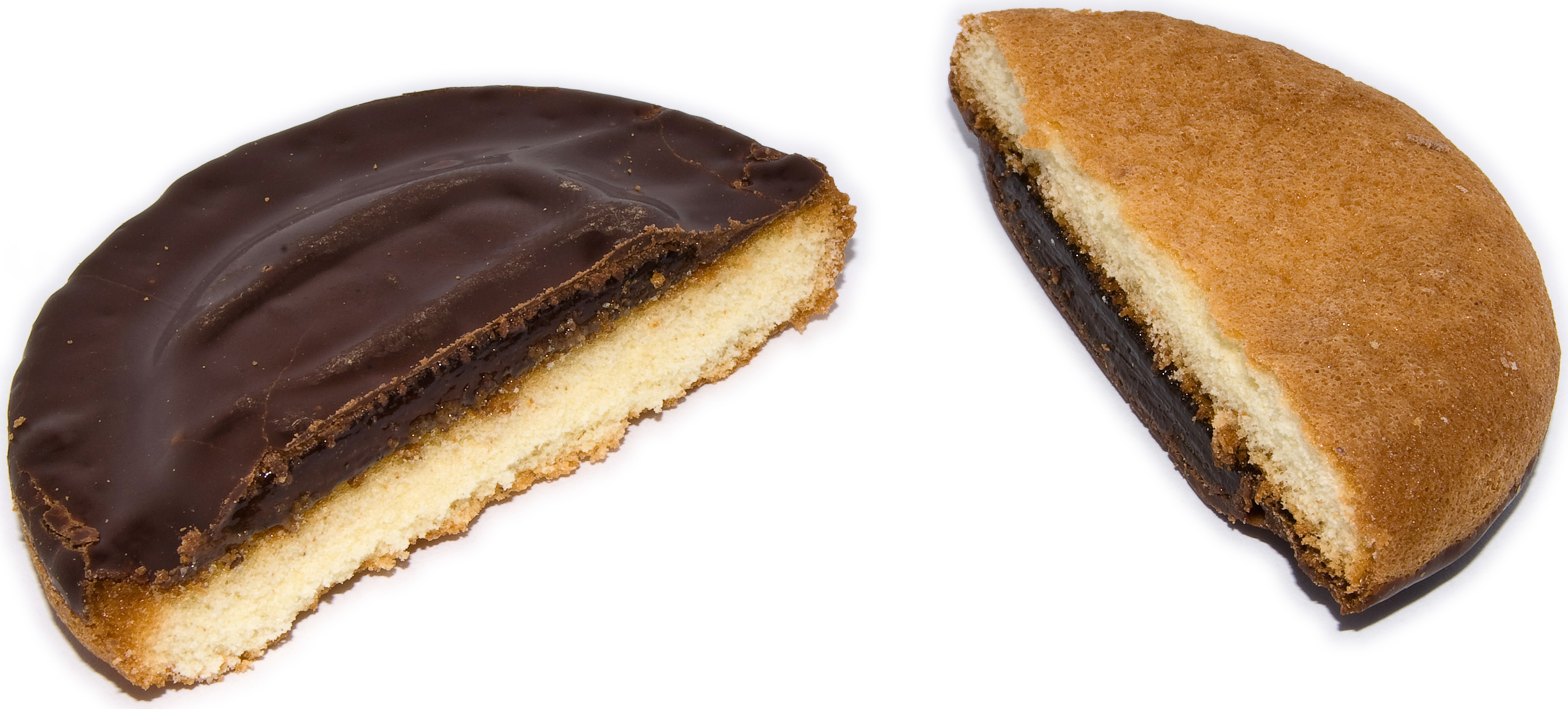 Jaffa Cake carefully cut in half. Photo taken by myself, and processed using Adobe Photoshop CS3. Released to public domain.